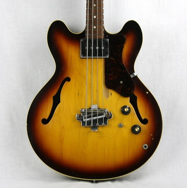 A vintage 1967 Epiphone Rivoli in Sunburst. Made in Kalamazoo, USA.